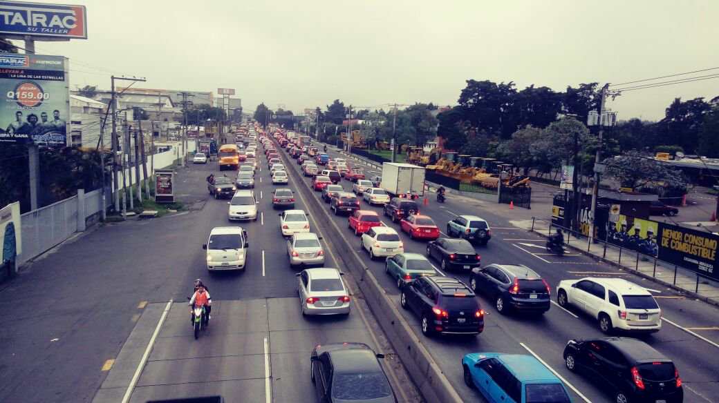 Calzada Raúl Aguilar Batres, Villa Nueva